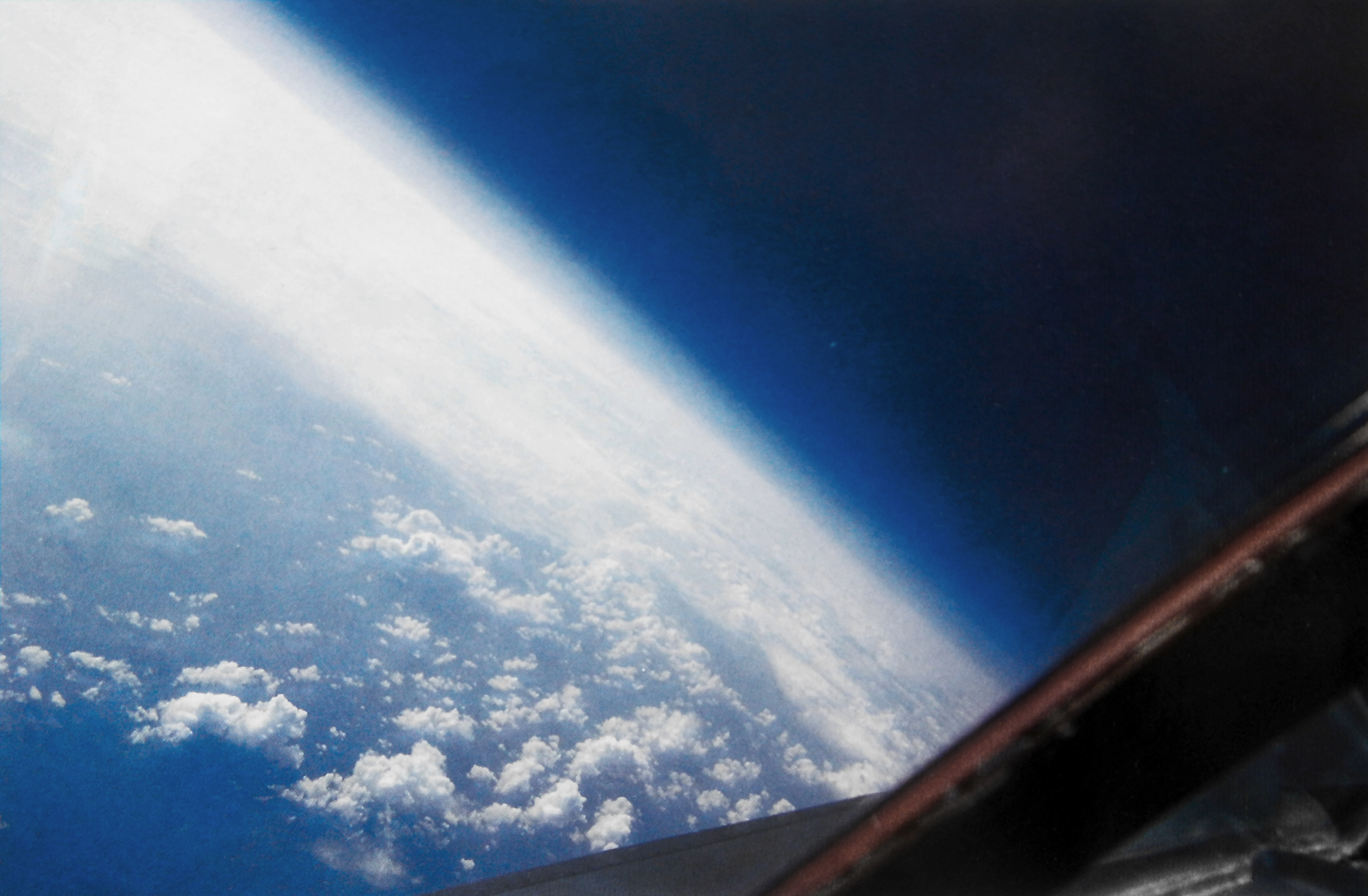 View of the earth as seen from the SR-71 Blackbird at approximately 83000 ft [1]